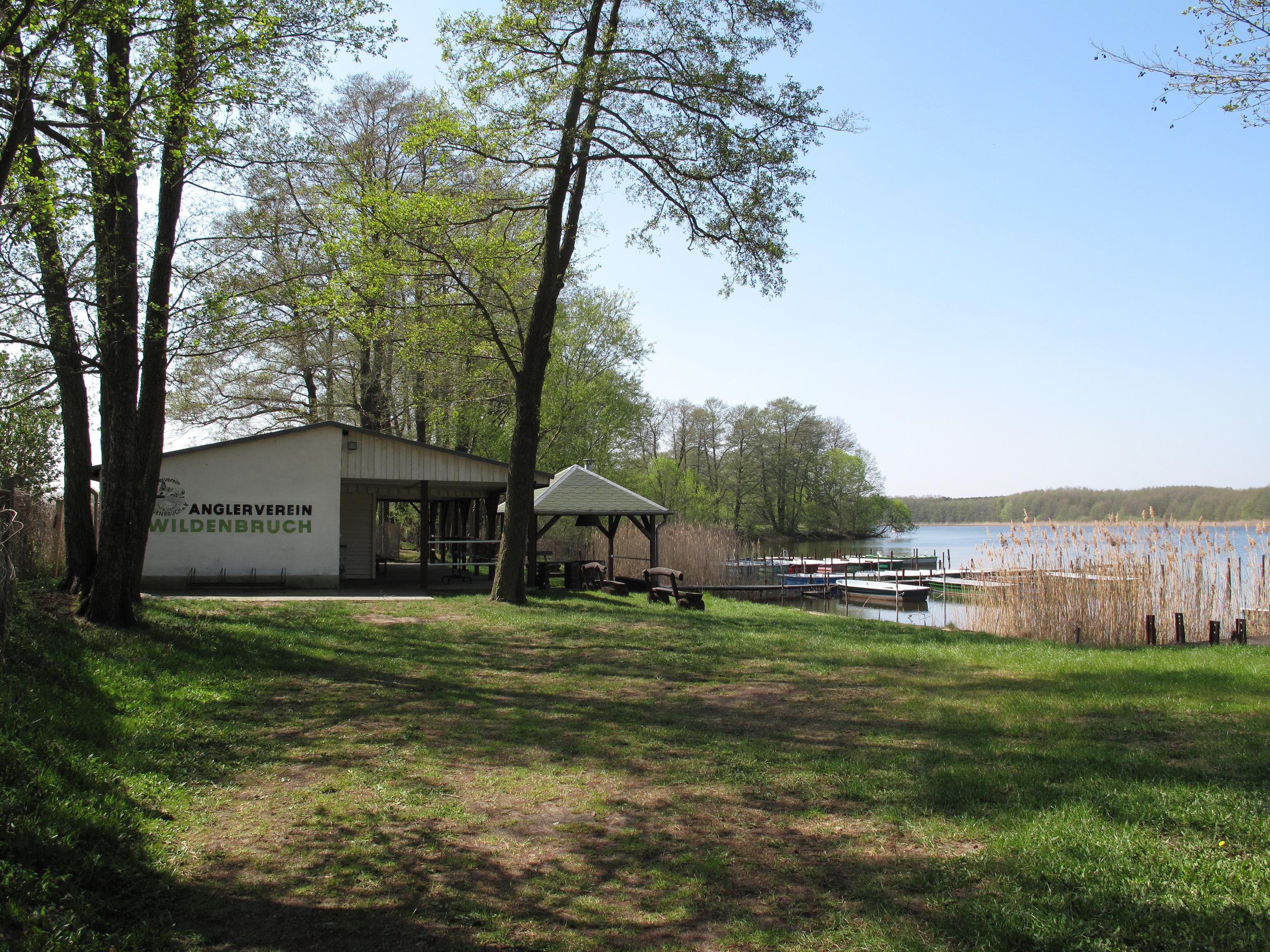 Fishing club Wildenbruch at the Großer Seddiner See. The Großer Seddiner See is a glacial lake in the nature park Nuthe-Nieplitz in Germany, Brandenburg, district Potsdam-Mittelmark, and covers 2,18 km². The lake is situated in the municipalities Seddiner See and Michendorf.